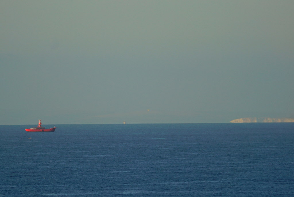 Greenwich Light Vessel Automatic, English Channel